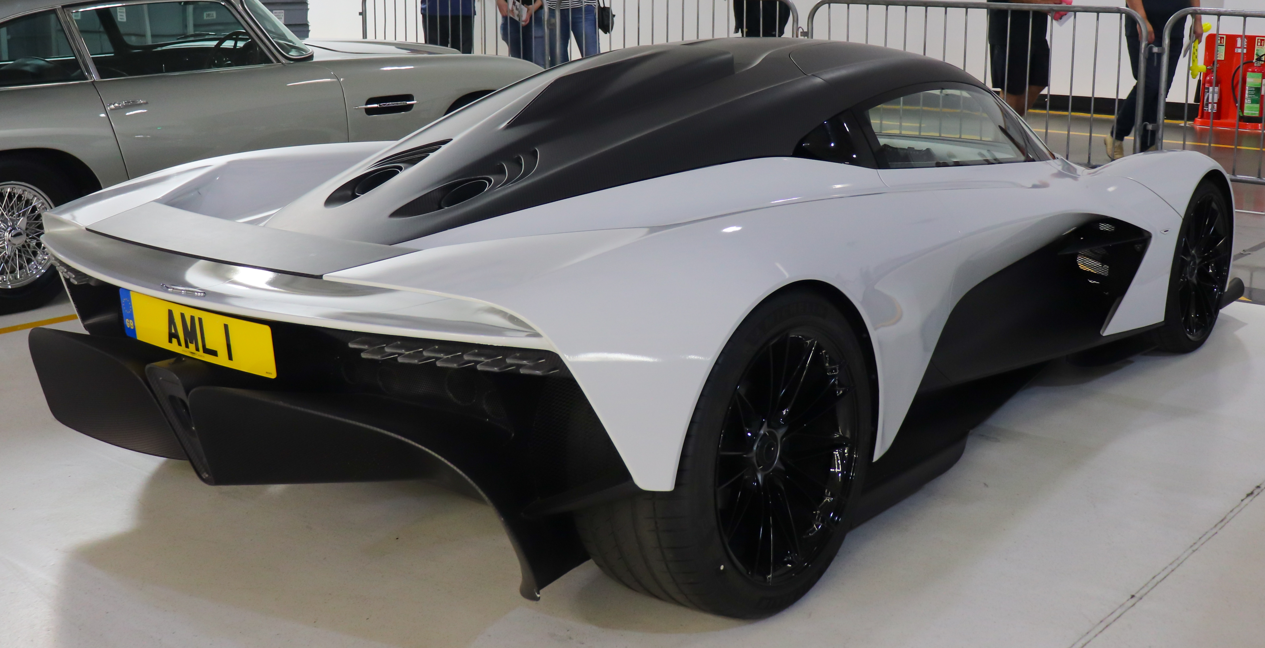 2019 Aston Martin AM-RB 003 Rear Taken at the Aston Martin Lagonda factory, Gaydon